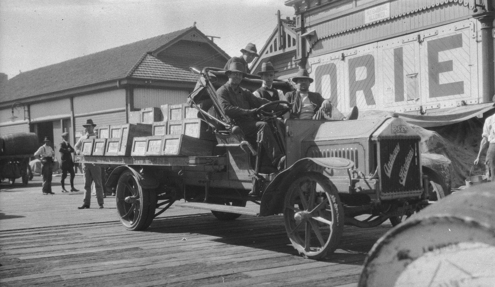 Free Labourers, Sydney Strike, SLNSW, 1917, State Library of New South Wales